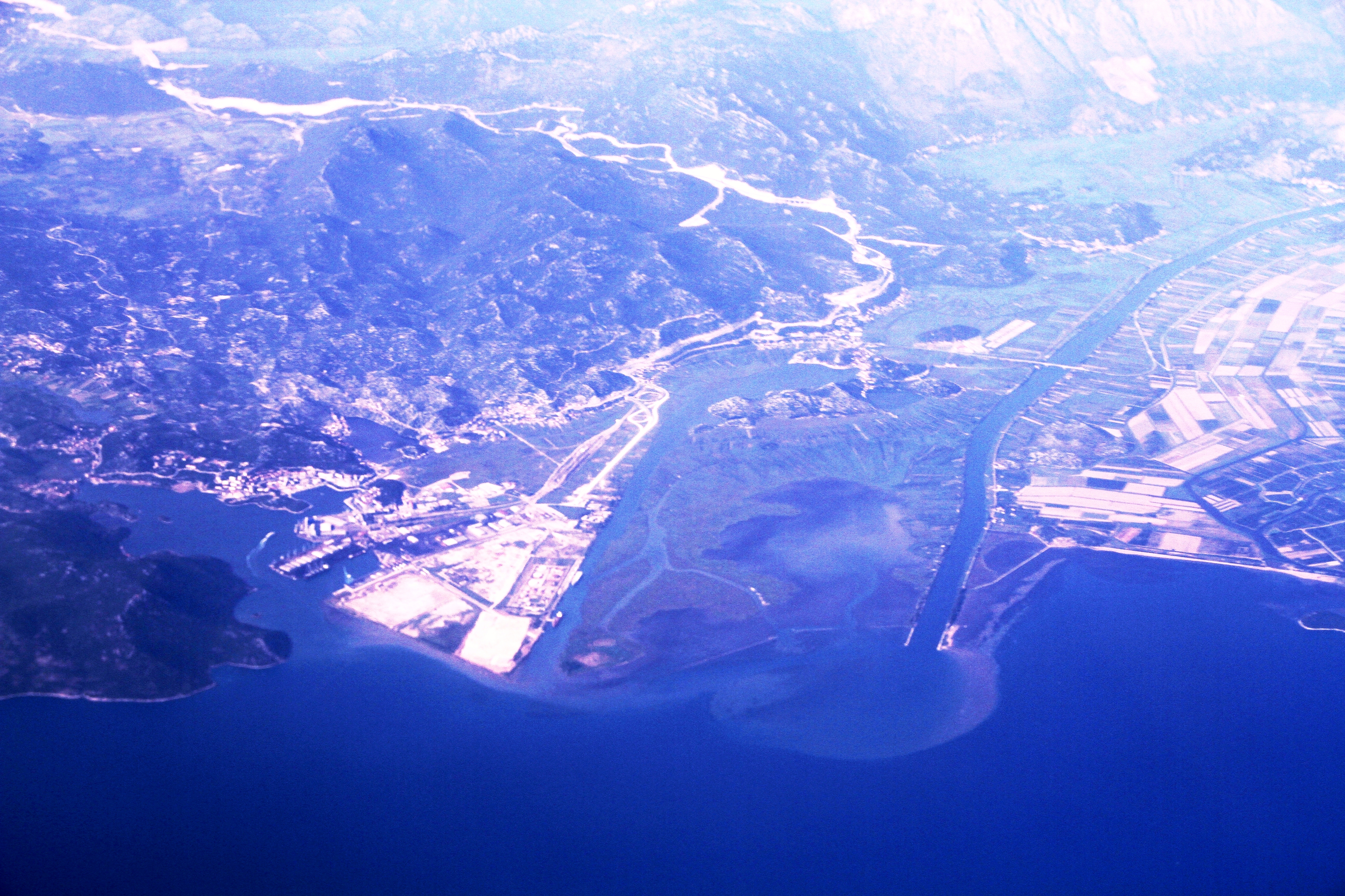 Aerial view of the delta of the river Neretva, the largest river flowing into the Adriatic from Croatia. The river has large agricultural fields, and a port. Located in Dubrovnik-Neretva province, Croatia.